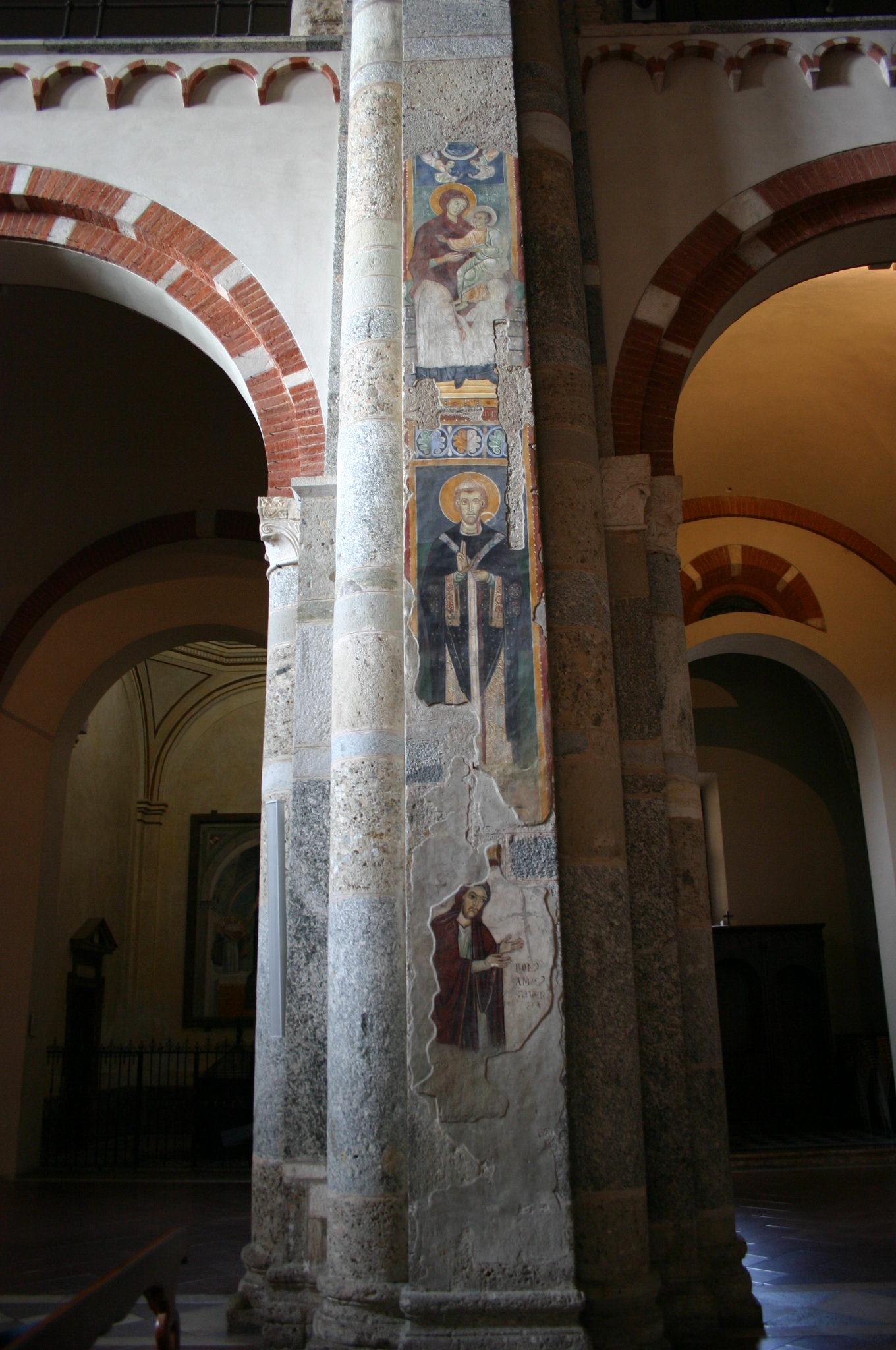 Main nave of Sant'Ambrogio basilica in Milan, Italy. Madonna and Child, Saint Ambrose, and donor. 13th century romanesque frescos on a pillar. Picture by Giovanni Dall'Orto, April 25 2007.